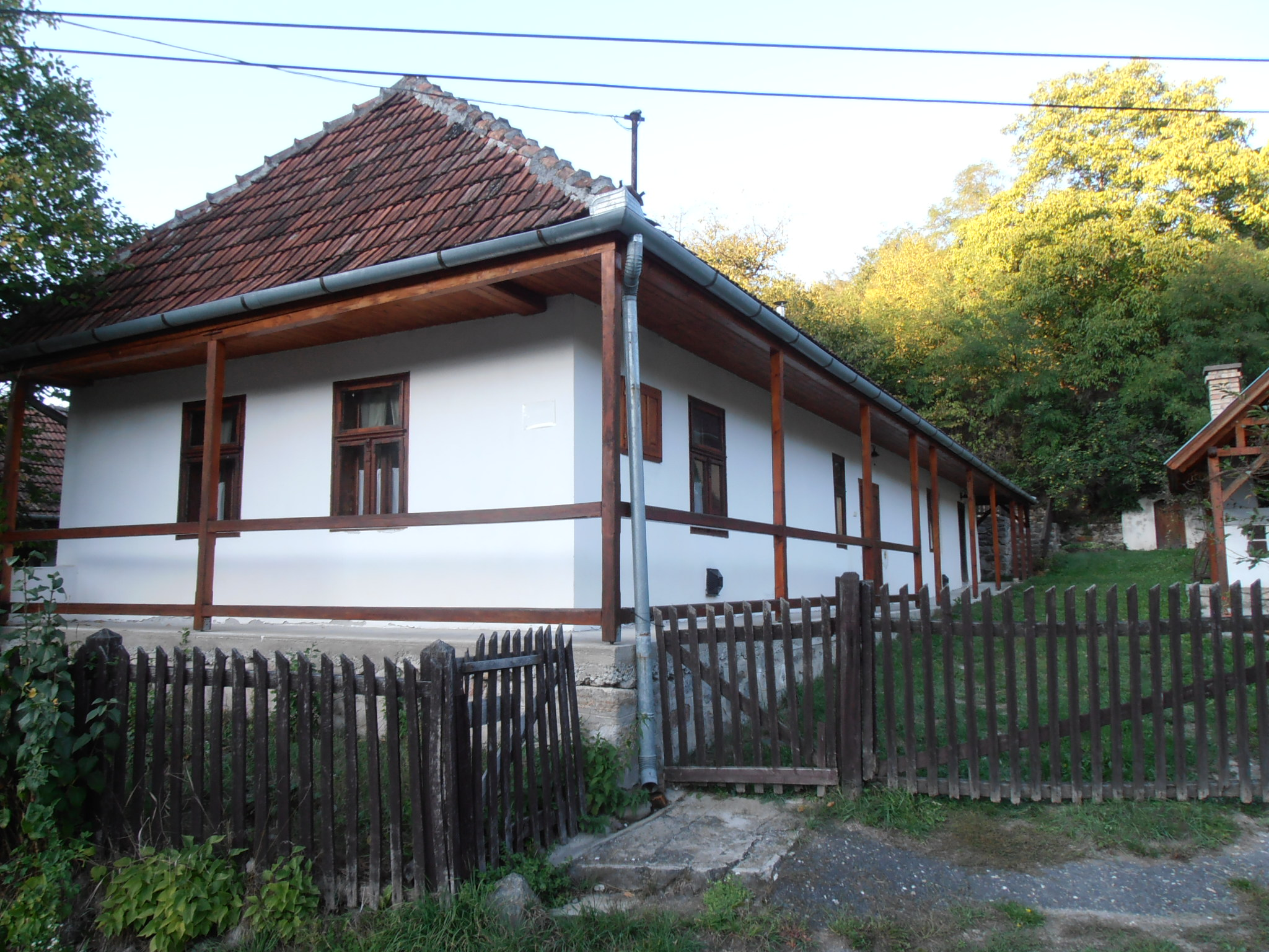 Old house in Nagyhuta, Hungary